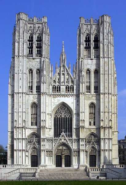 Saint Gudule Cathedral in Brussels, Belgium